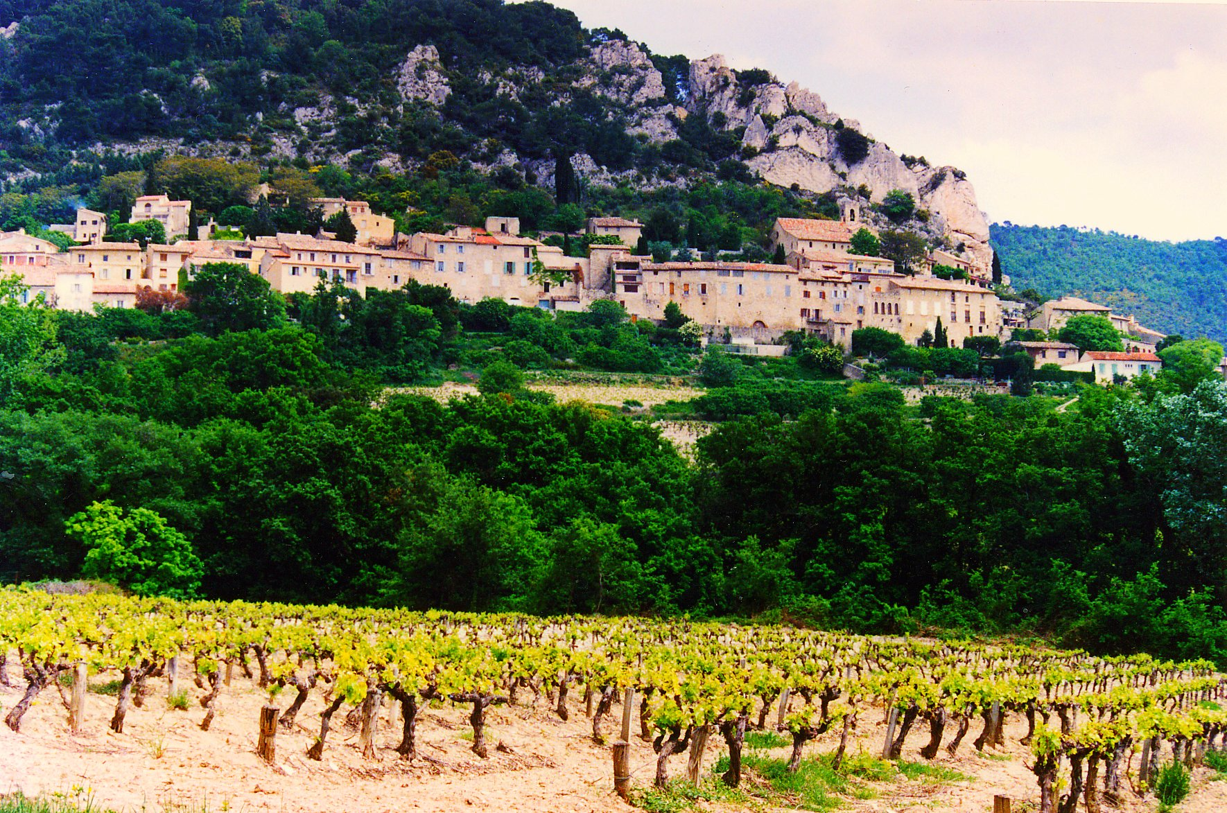 Vineyards in the French wine region of the Rhone valley